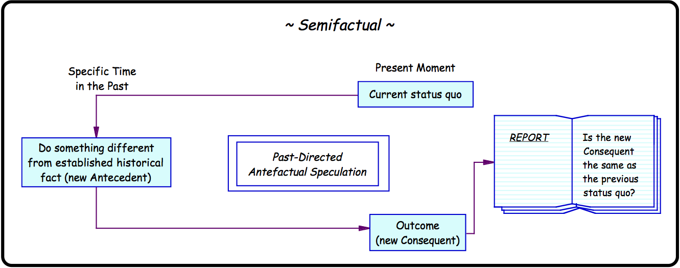 Taken from page 144 of Yeates, L.B., Thought Experimentation: A Cognitive Approach, Graduate Diploma in Arts (By Research) dissertation, University of New South Wales, 2004.